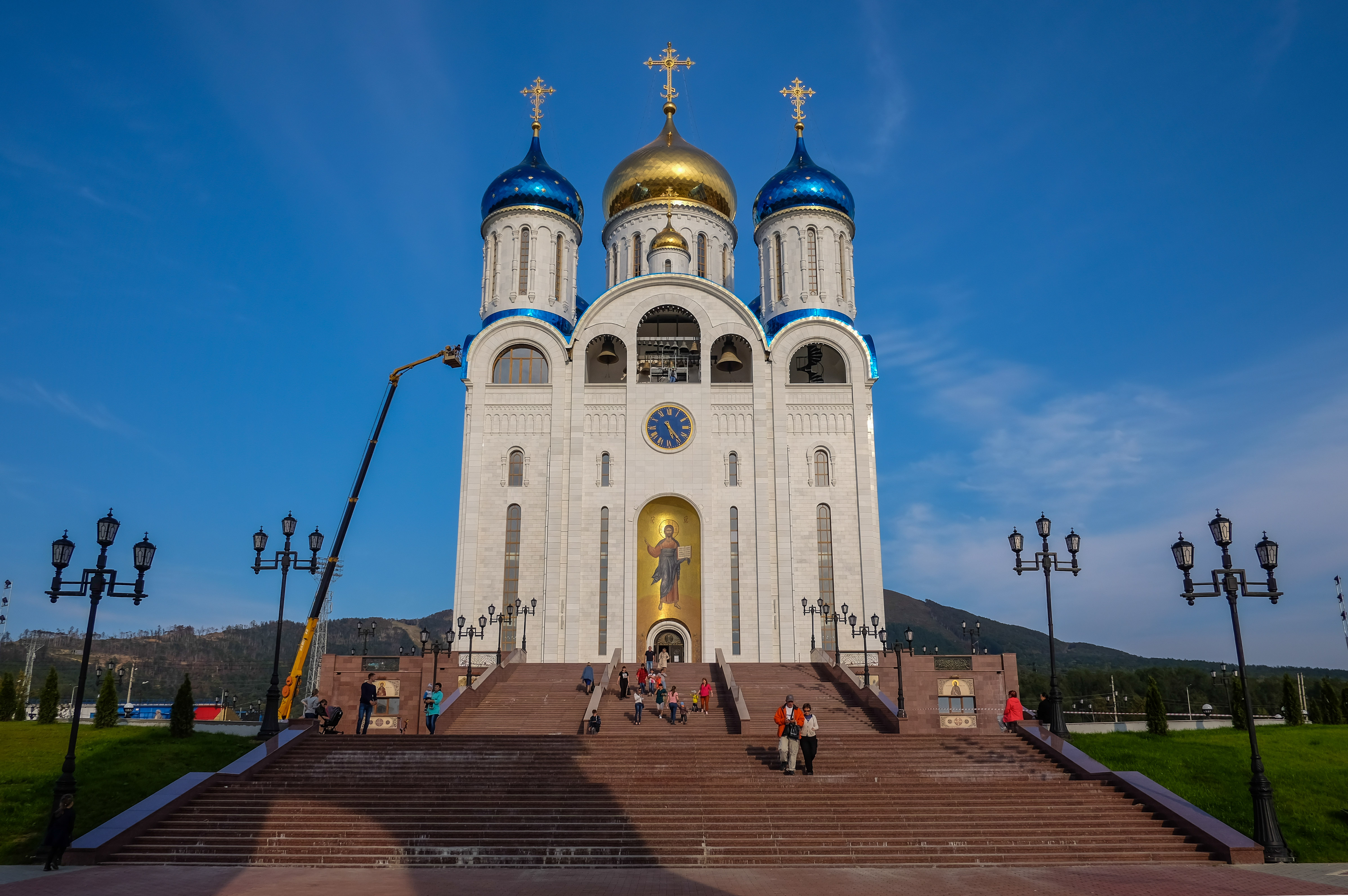 Orthodox Church, Yuzhno-Sakhalinsk